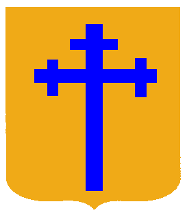 From improved by me. This representation of a coat of arms is potentially different from the one used by the armiger (municipality or organisation) in question. = ⇑“Sable, a lionrampant or” This coat of arms was drawn based on its blazon which – being a written description – is free from copyright. Any illustration conforming with the blazon of the arms is considered to be heraldically correct. Thus several different artistic interpretations of the same coat of arms can exist. The design officially used by the armiger is likely protected by copyright, in which case it cannot be used here.Individual representations of a coat of arms, drawn from a blazon, may have a copyright belonging to the artist, but are not necessarily derivative works. Further information: Commons:Coats of arms and Template:Coa blazon